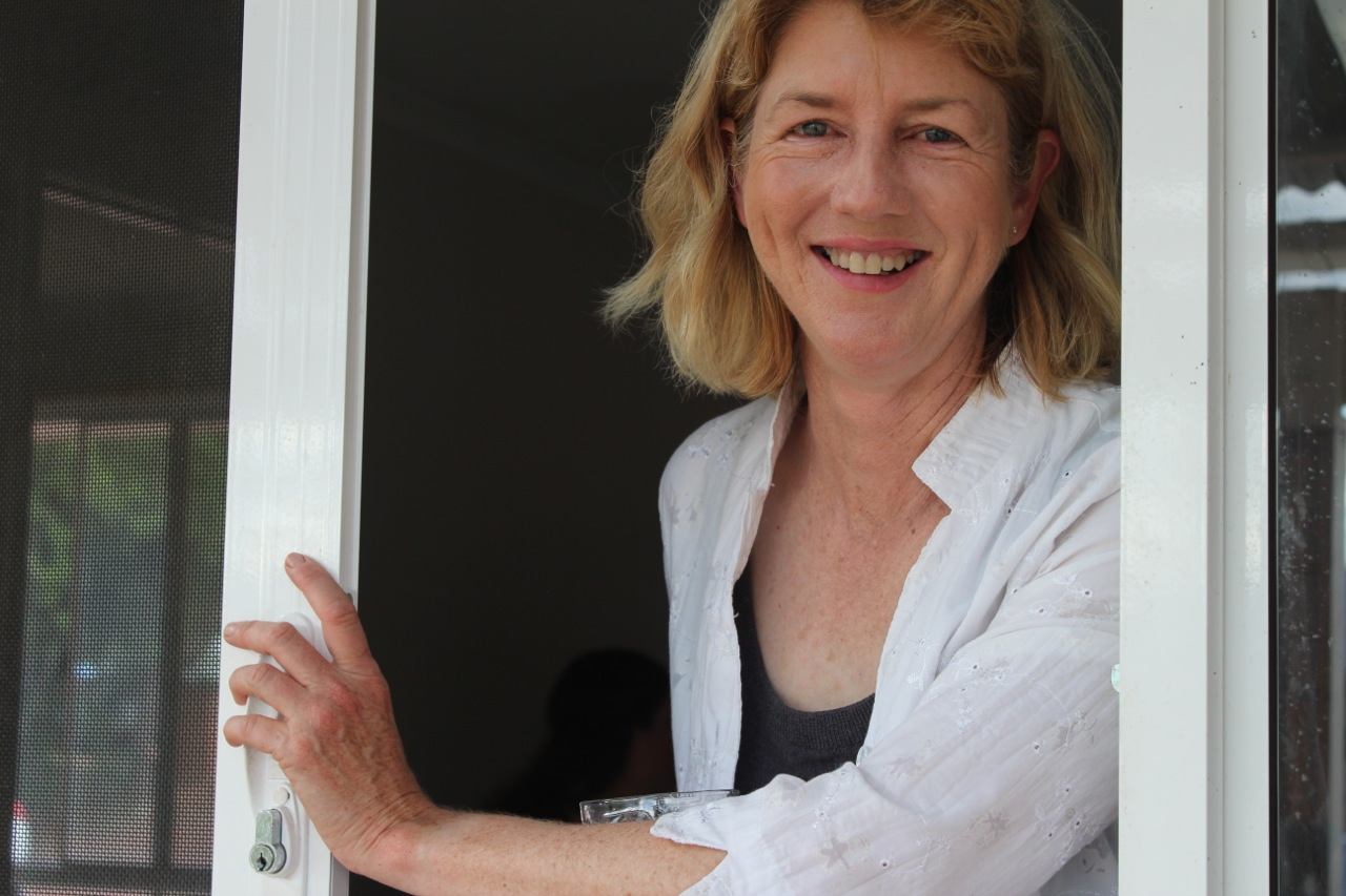 Australian science fiction author Maxine McArthur. Photo by Catriona Sparks.